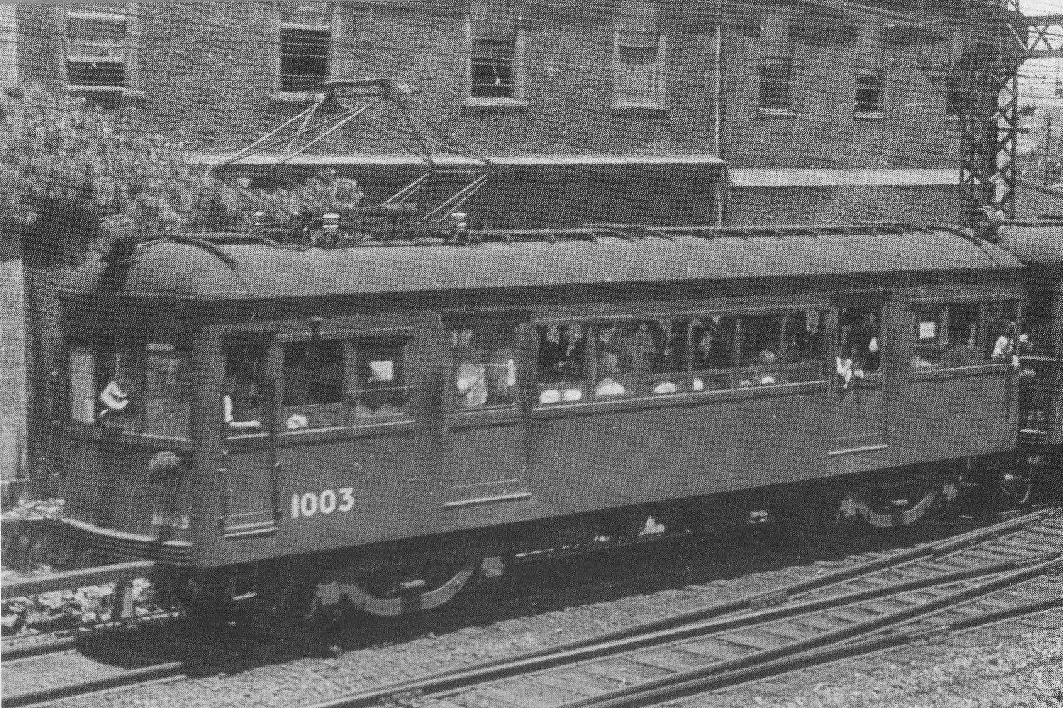 Hanshin #1003. taken in 1946.